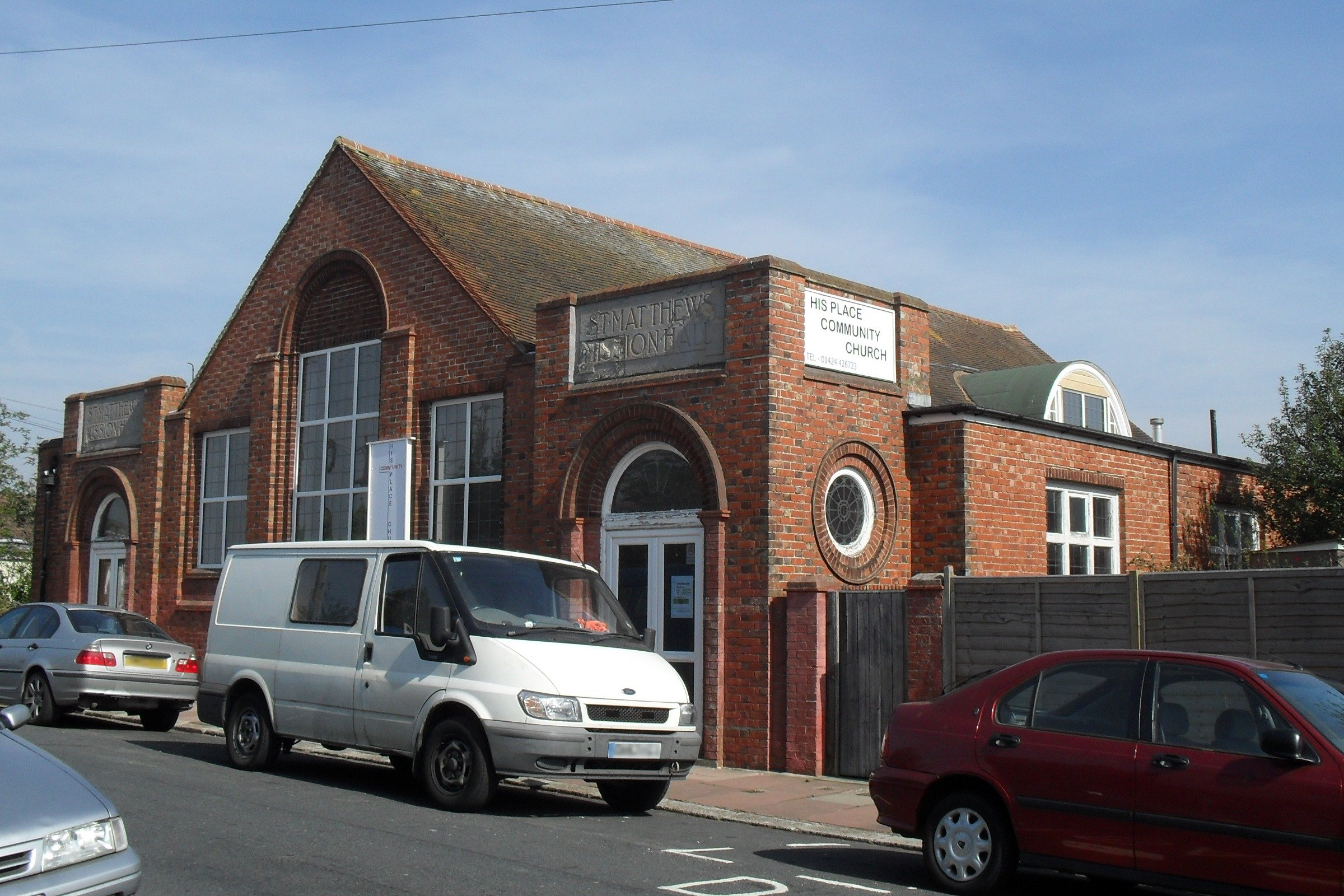 His Place Community Church, Duke Road, Silverhill, Hastings, East Sussex, England. A Pentecostalist church based in the former St Matthew's Mission Hall.